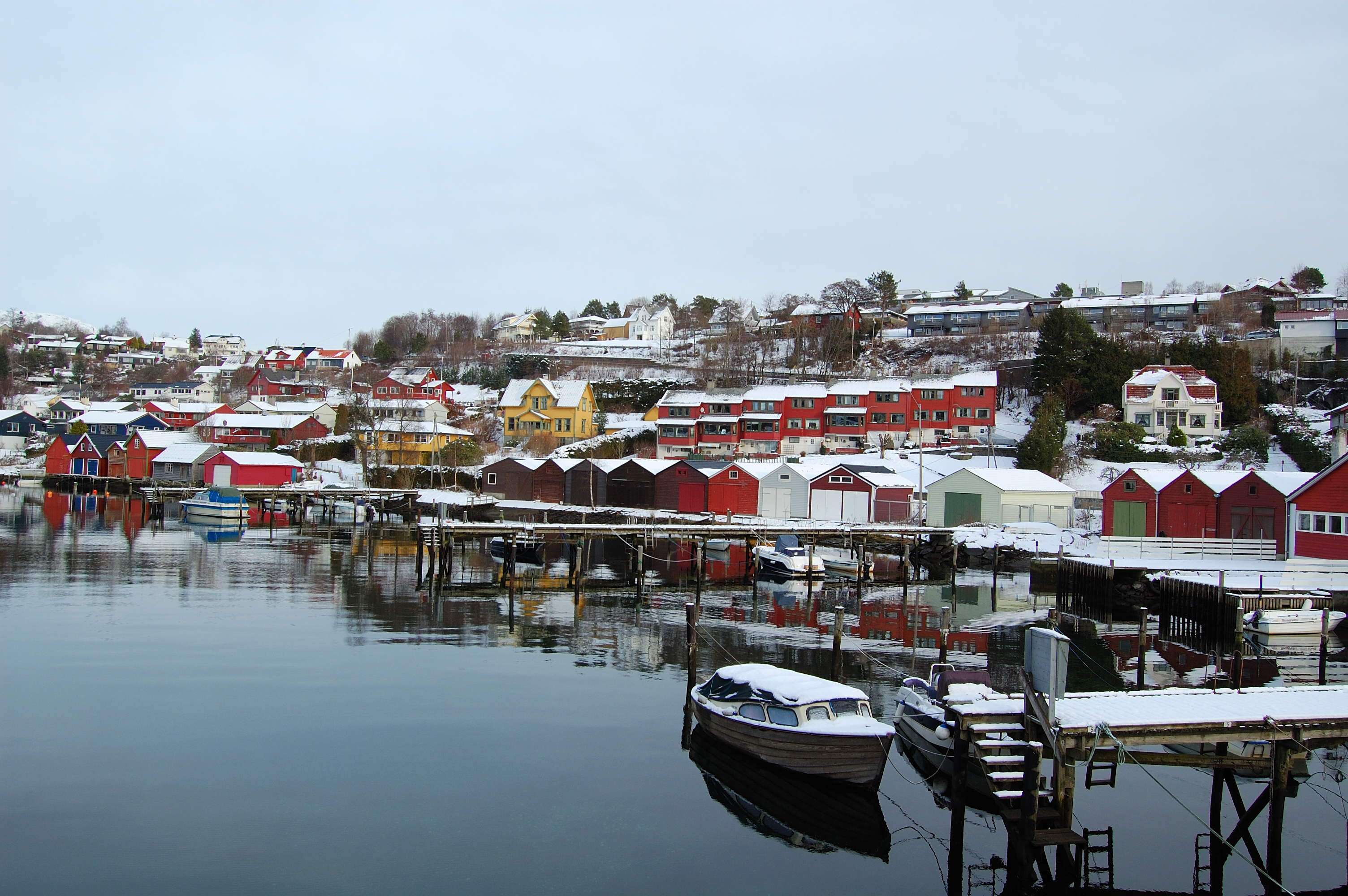 Houses in Os, Hordaland, Norway.